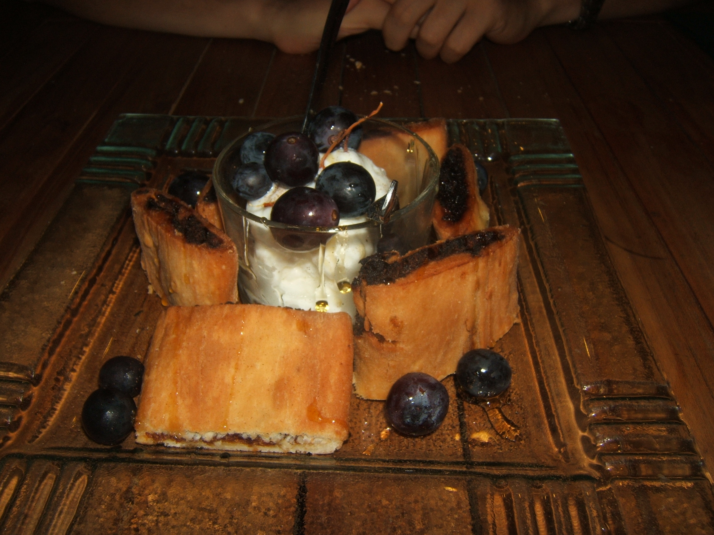 Imqaret, typical Maltese date filled snack.